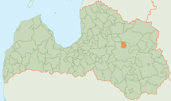 Map of Cesvaine